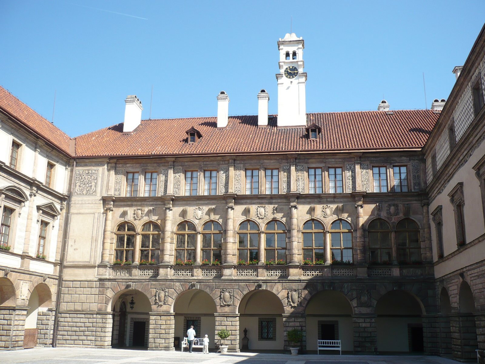 Nelahozeves Castle, Central Bohemian Region, the Czech Republic